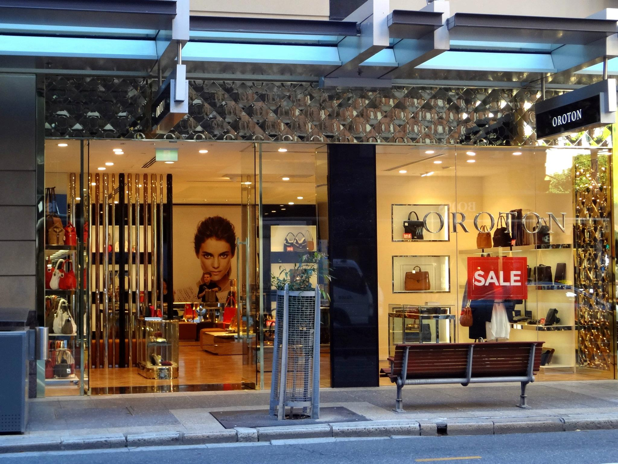 The Oroton Flagship store for Brisbane.